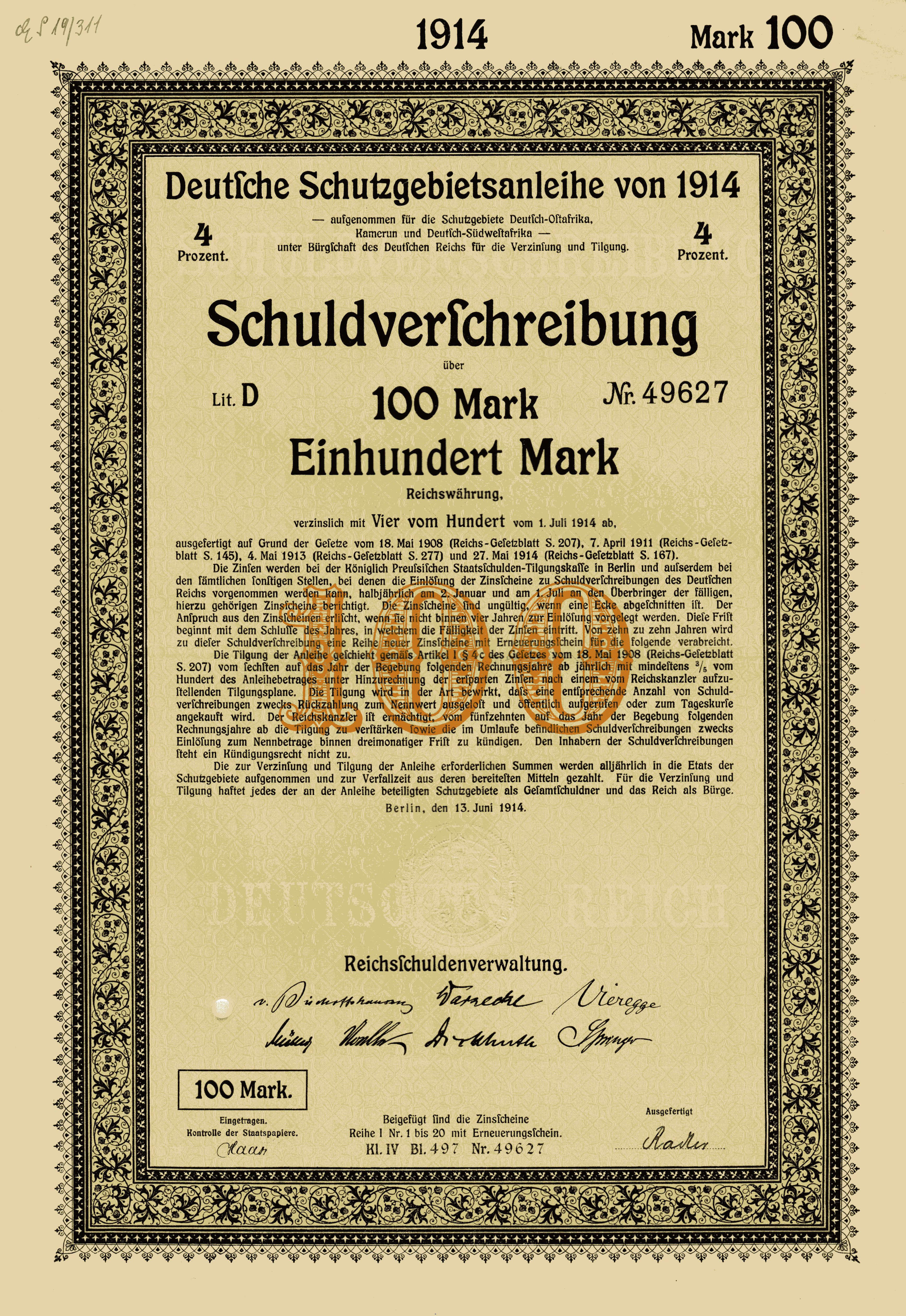 Bond of the Reichsschuldenverwaltung, issued 13. June 1914